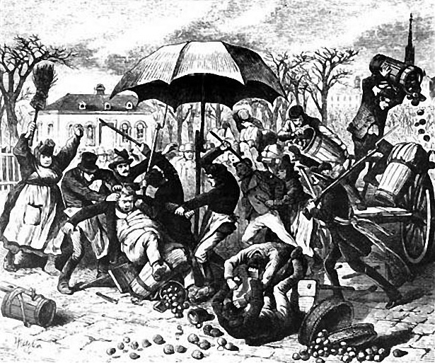 Illustration of the so called "Kartoffelrevolution" ("potatoe-revolution") in Berlin, april 1847.